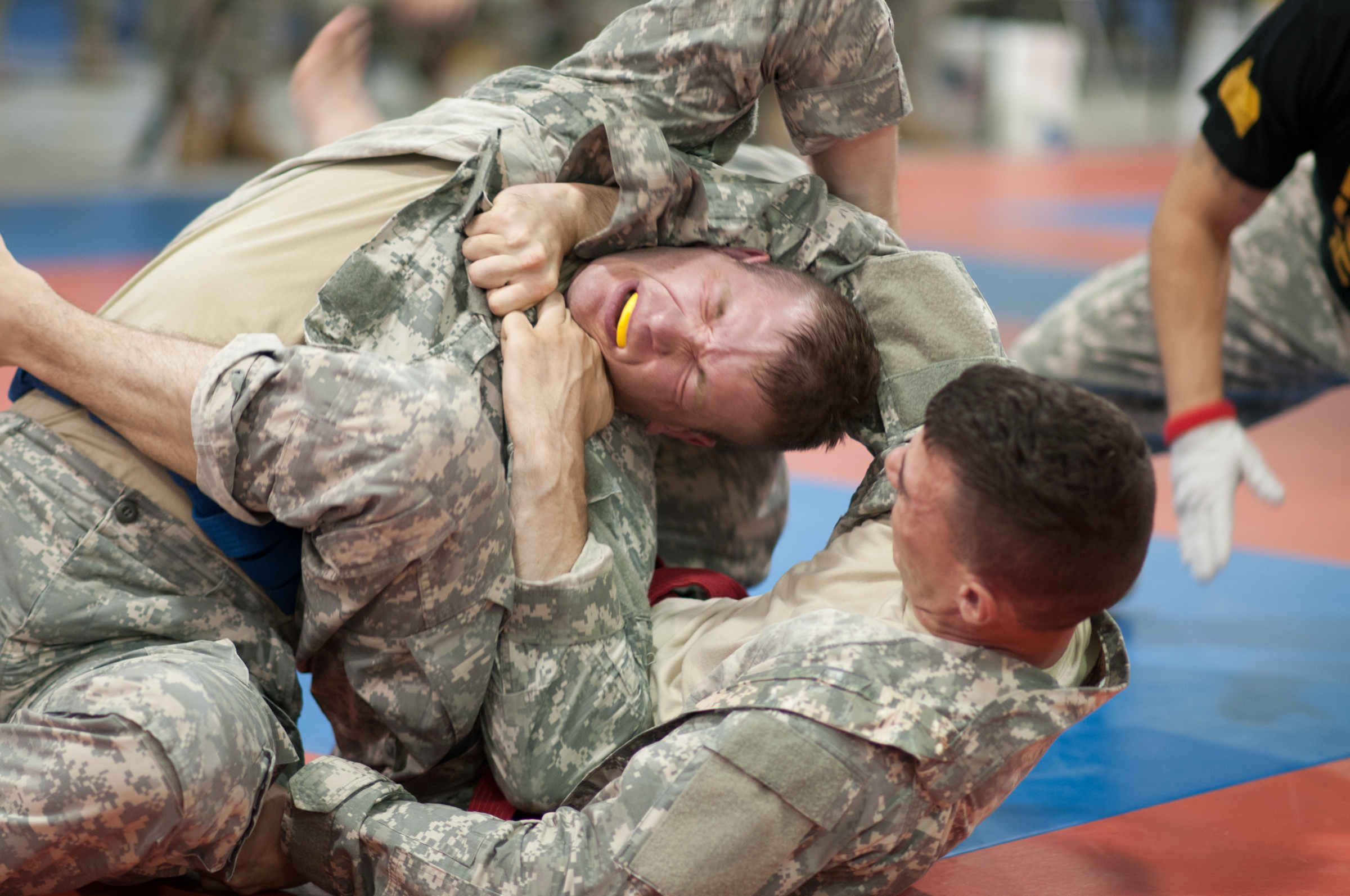 U.S. Army Cpl. Jabriel Santos, right, a cargo specialist assigned to the 1st Mission Support Command, and Cpl. Francis Kvarta, a supply sergeant with the 99th Regional Support Command, fight for a dominating position during the Modern Army Combatives tournament of the 2013 Army Reserve Best Warrior Competition at Fort McCoy, Wis., June 27, 2013. (U.S. Army photo by Timothy Hale/Released)